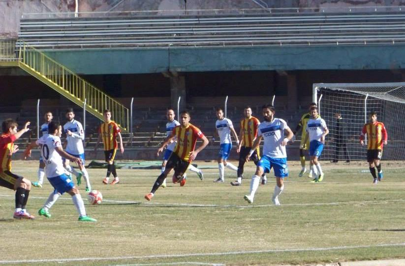 Turkish 3. Lig (3rd League) Ankara Demirspor 1-1 Kızılcabölükspor match (2013-2014 season)